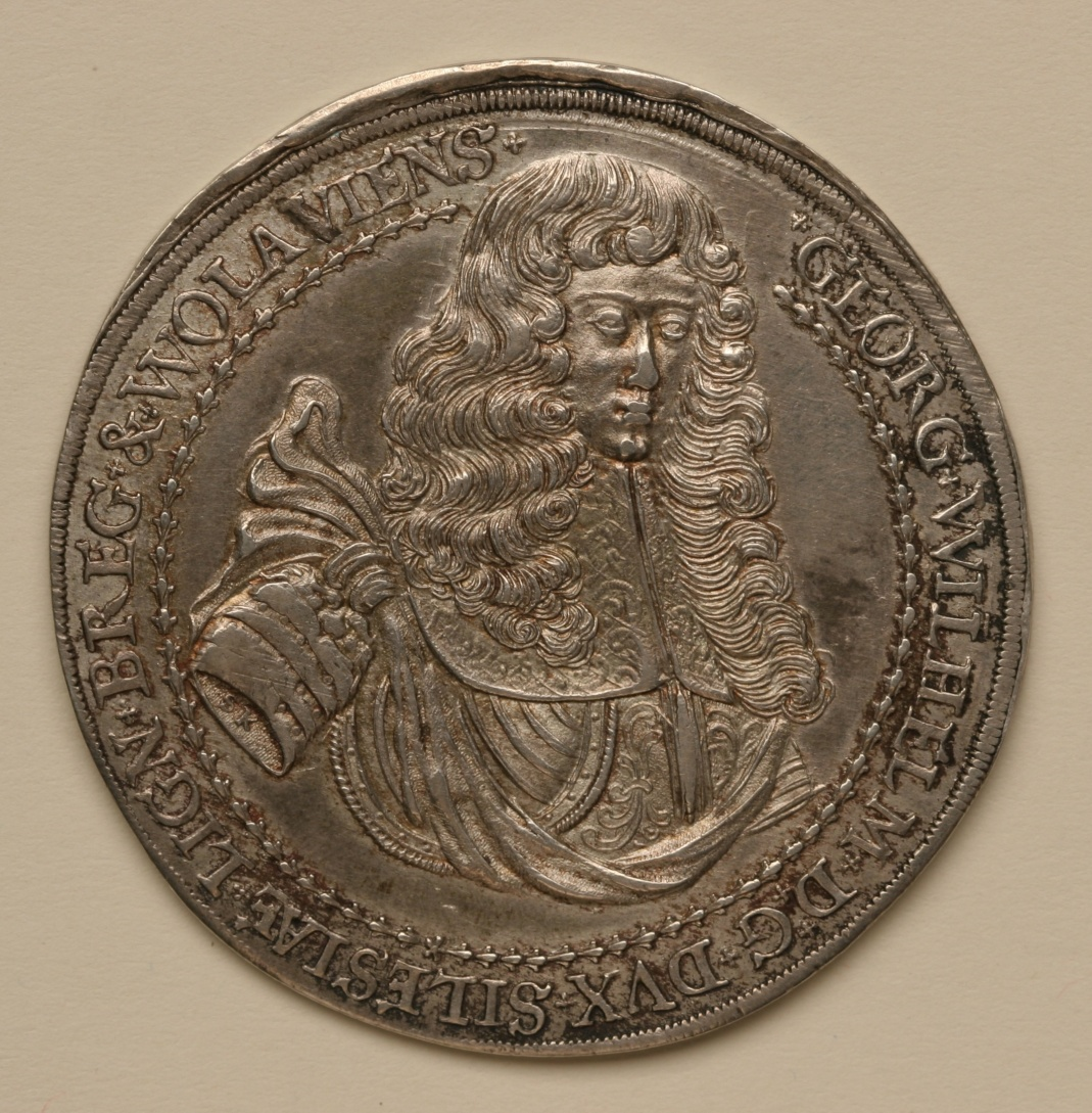 Funerary medal 1675 Inscription: GEORG. WILHELM. D[ei]: G[ratia]. DVX. SILESIAE. LIGN. BREG. ET. WOLAVIENS. Translation: Georg Wilhelm, by the Grace of God Duke of Silesia, Legnica, Brzeg and Wolow. Tomáš Kleisner: Czech Baroque funerary medals, p. 241